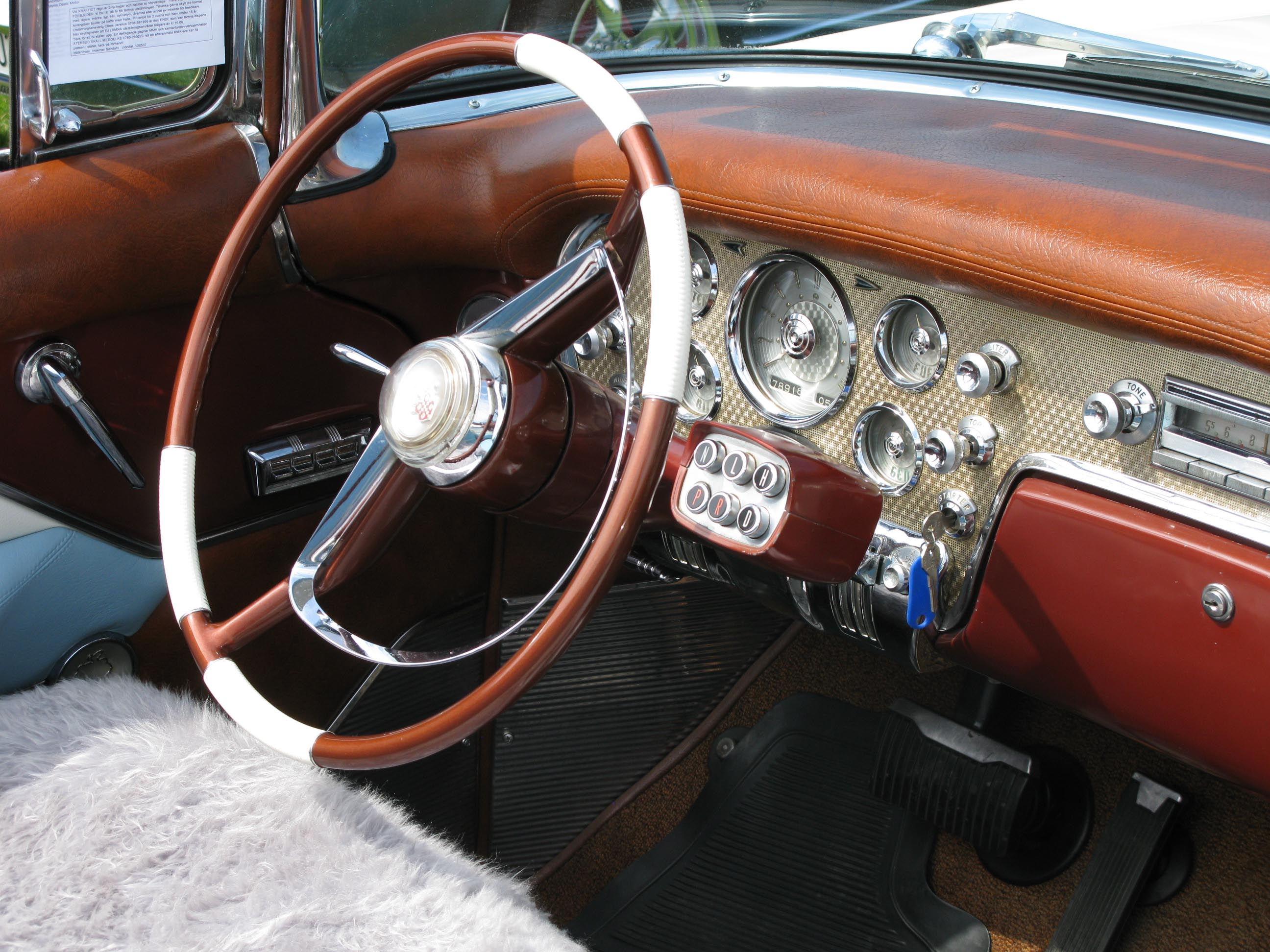 The 1956-only Ultramatic transmission push-button control. Event: Tjolöholm Classic Motor 2012.